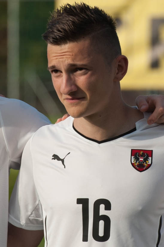 U21 Austria - DR Congo, 2014-10-12: Sinan Bytyqi